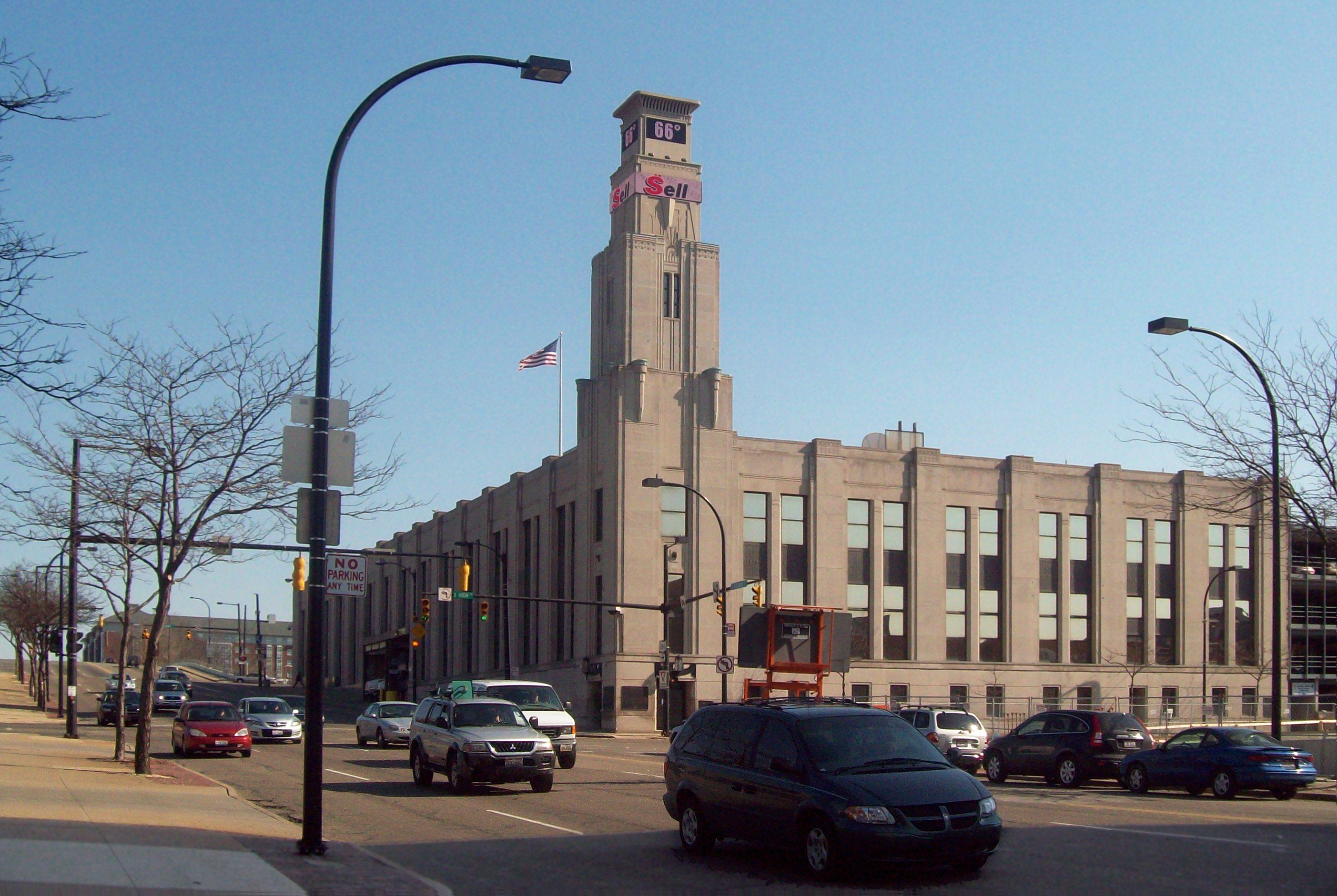 The Akron Beacon Journal Headquarters, Akron, Ohio.